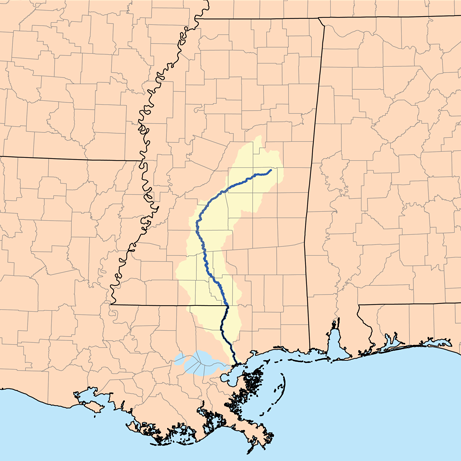 Map of the Pearl River watershed.